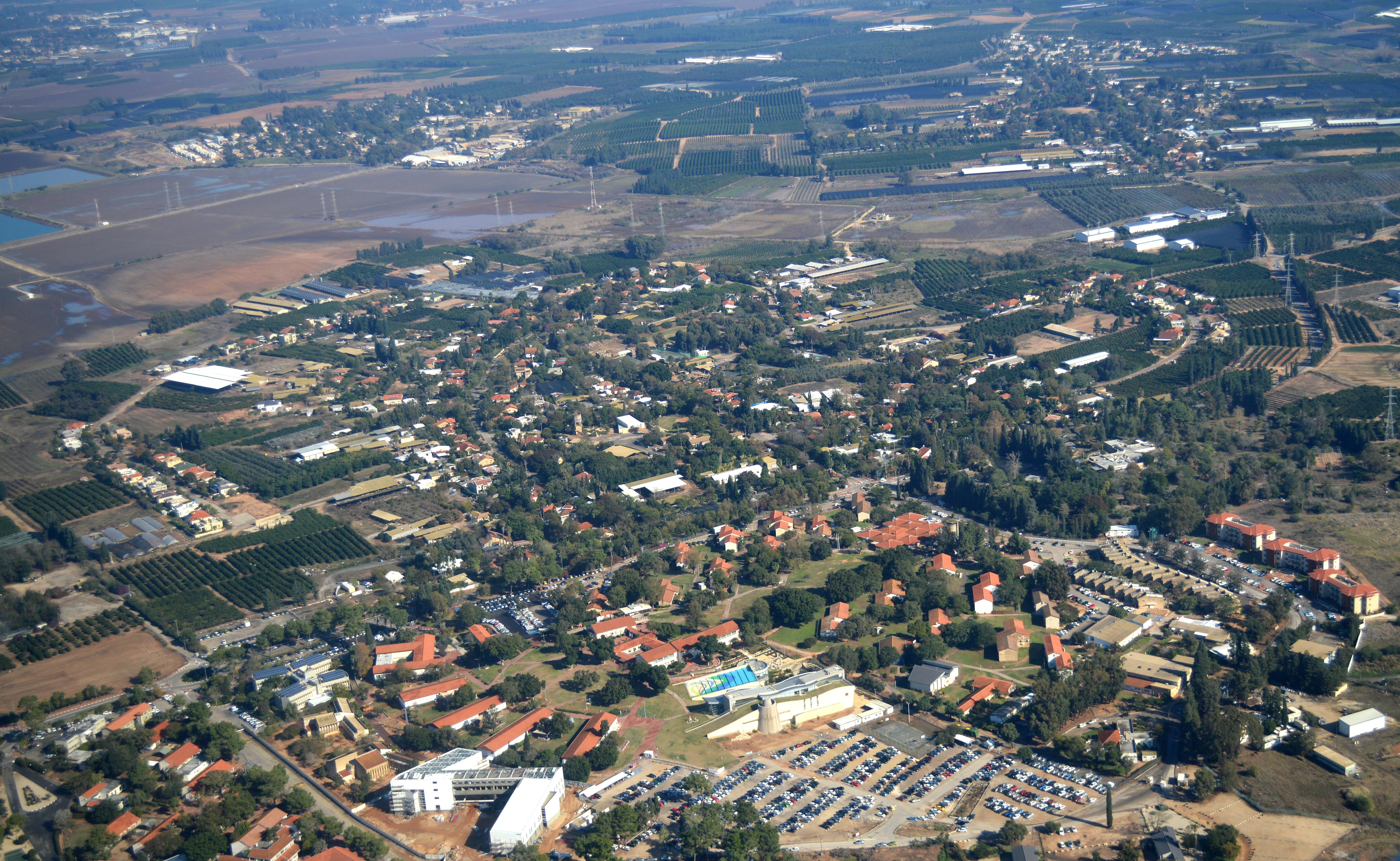 Aerial View of Israel